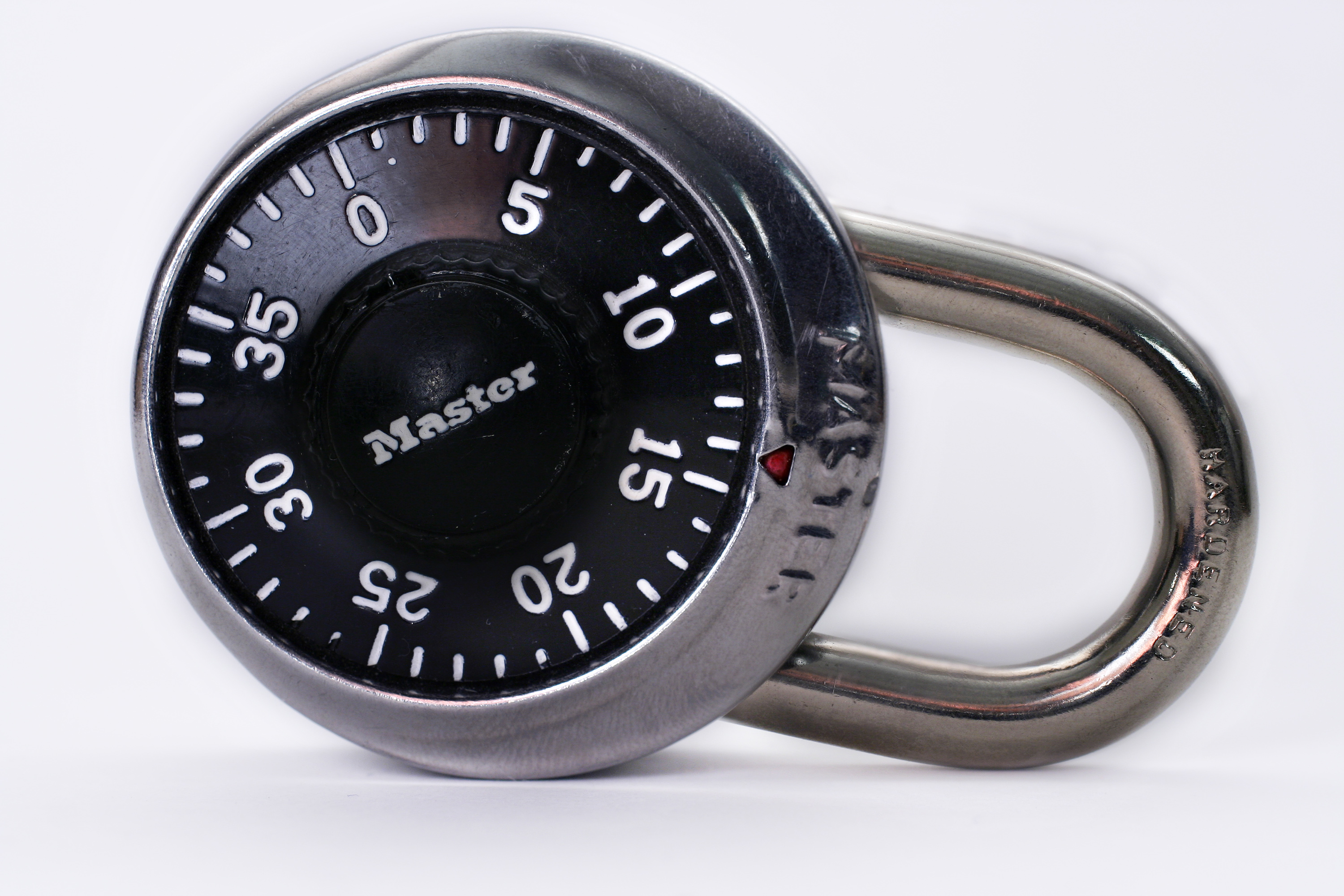 A Master Lock brand padlock.